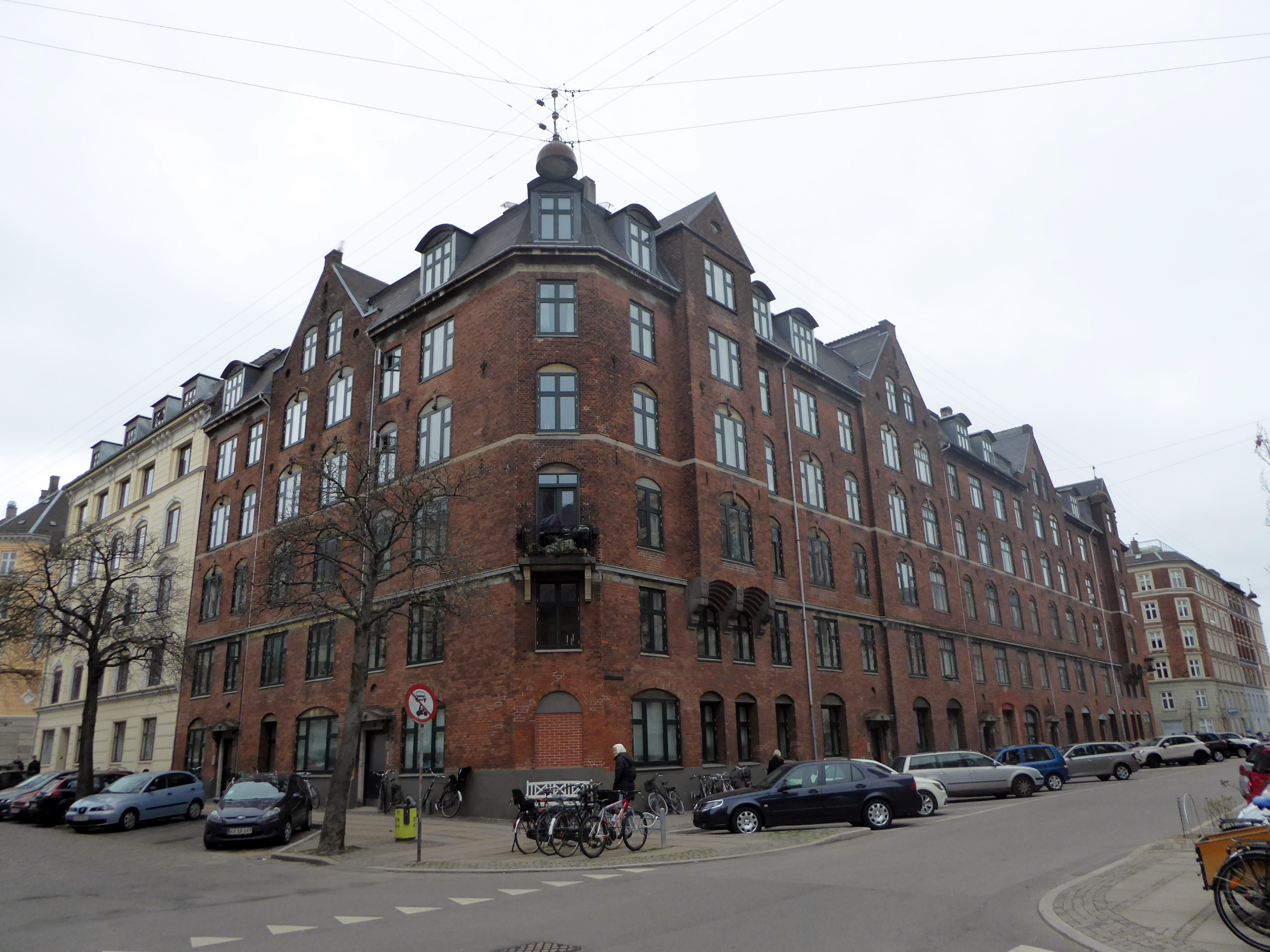 The housing cooperative A/B Willedam at the corner of Willemoesgade and Fiskedamsgade in Østerbro in Copenhagen.